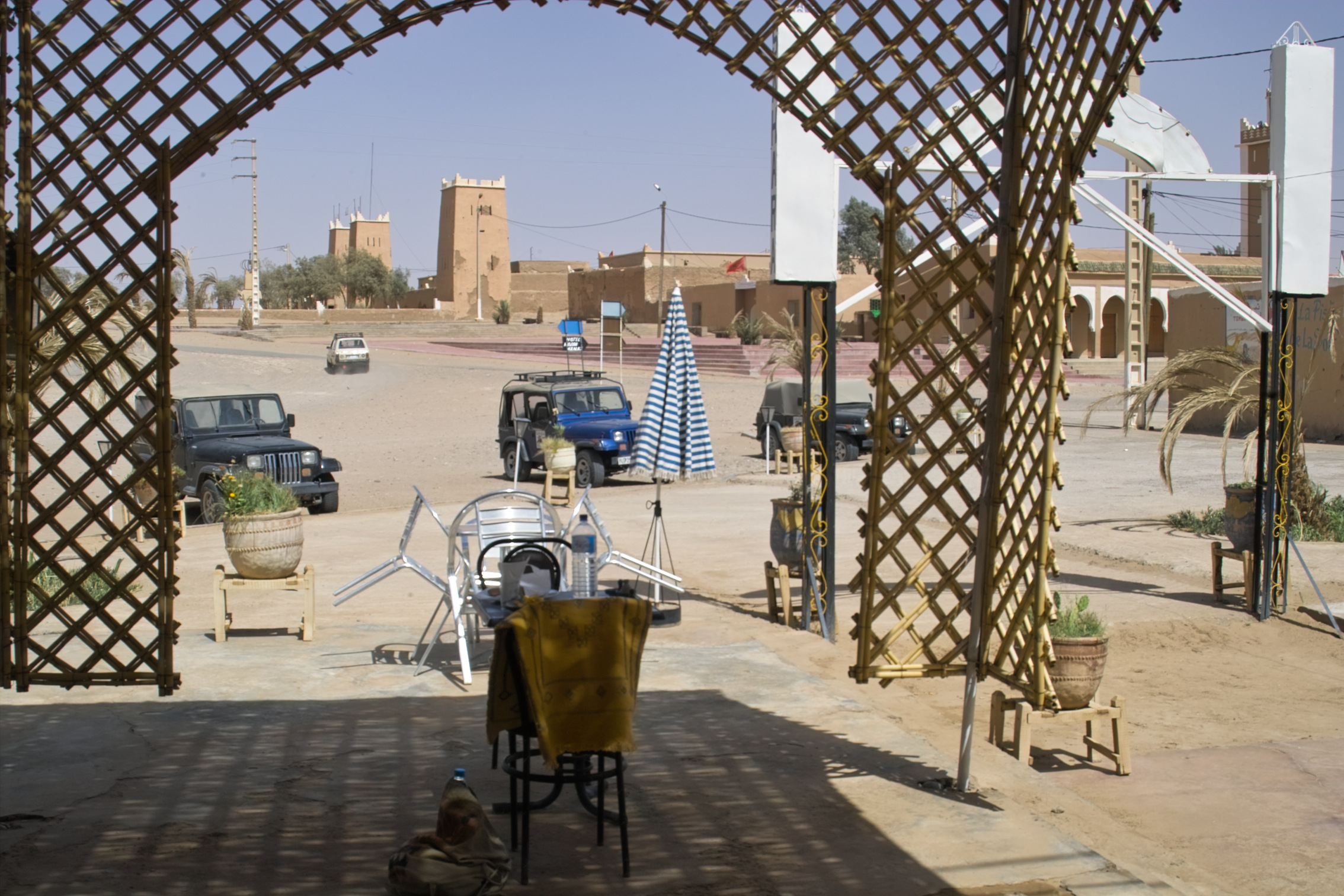 Tourist restplace in M'hamid. Starting point for four wheelers- and cameltours.